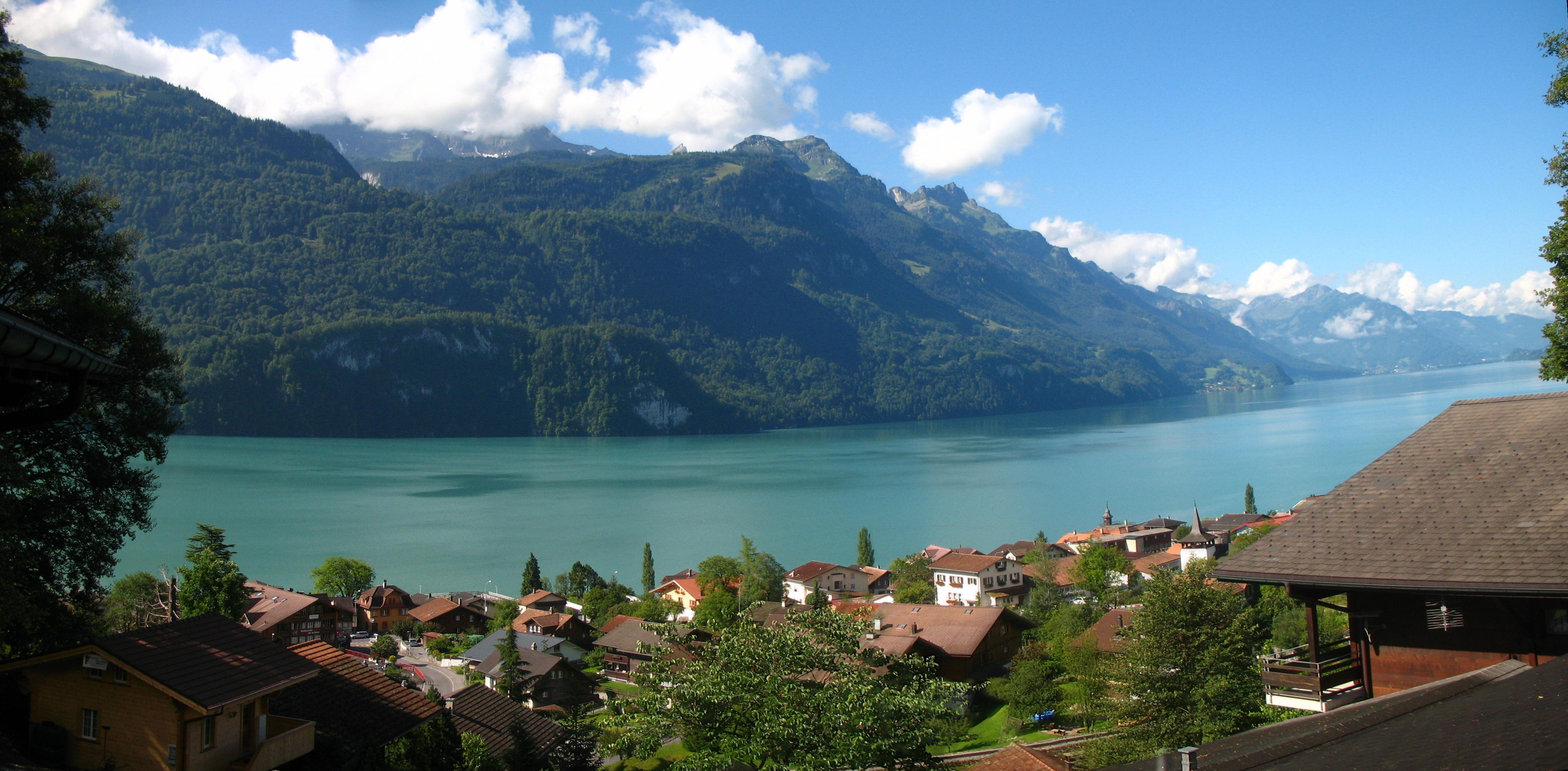 View from Hotel Lindenhof, Brienz, Switzerland